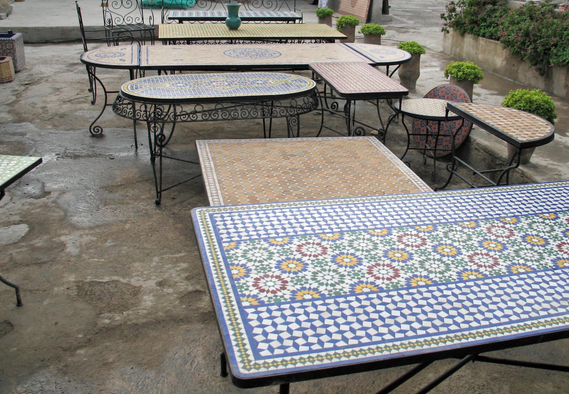 Zellige ornament for tables